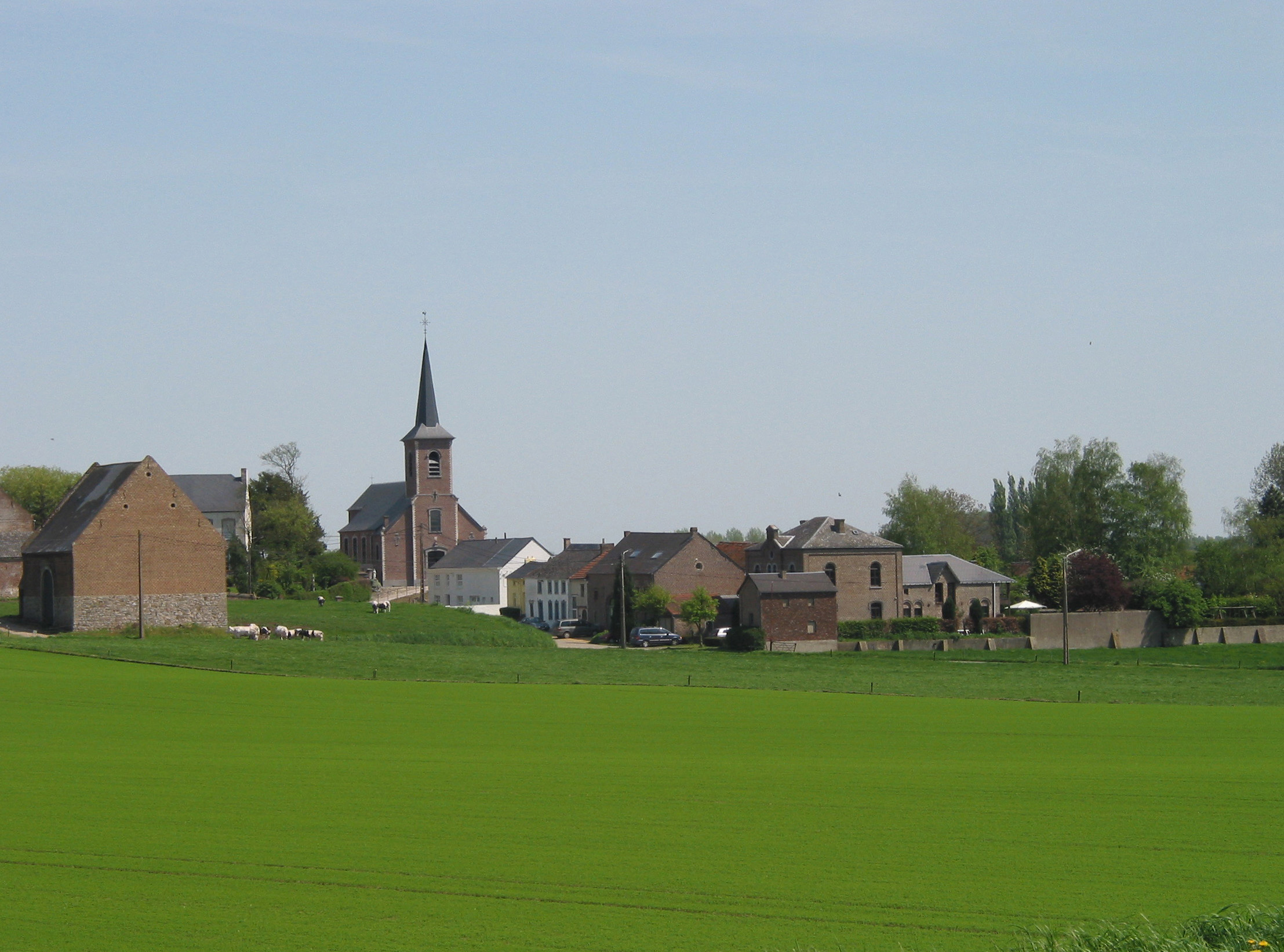 Petit-Rosière (Belgium), the village in the springtime.